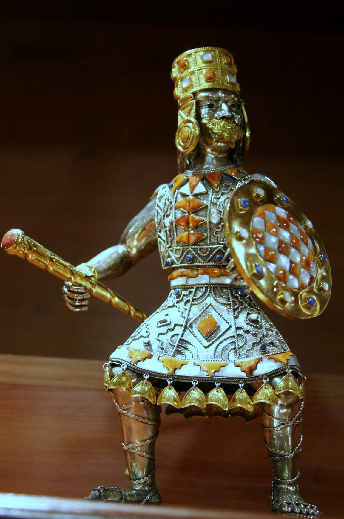 Peru Trip Last Day in Cusco, visiting the Cathedral and a jewelry factory